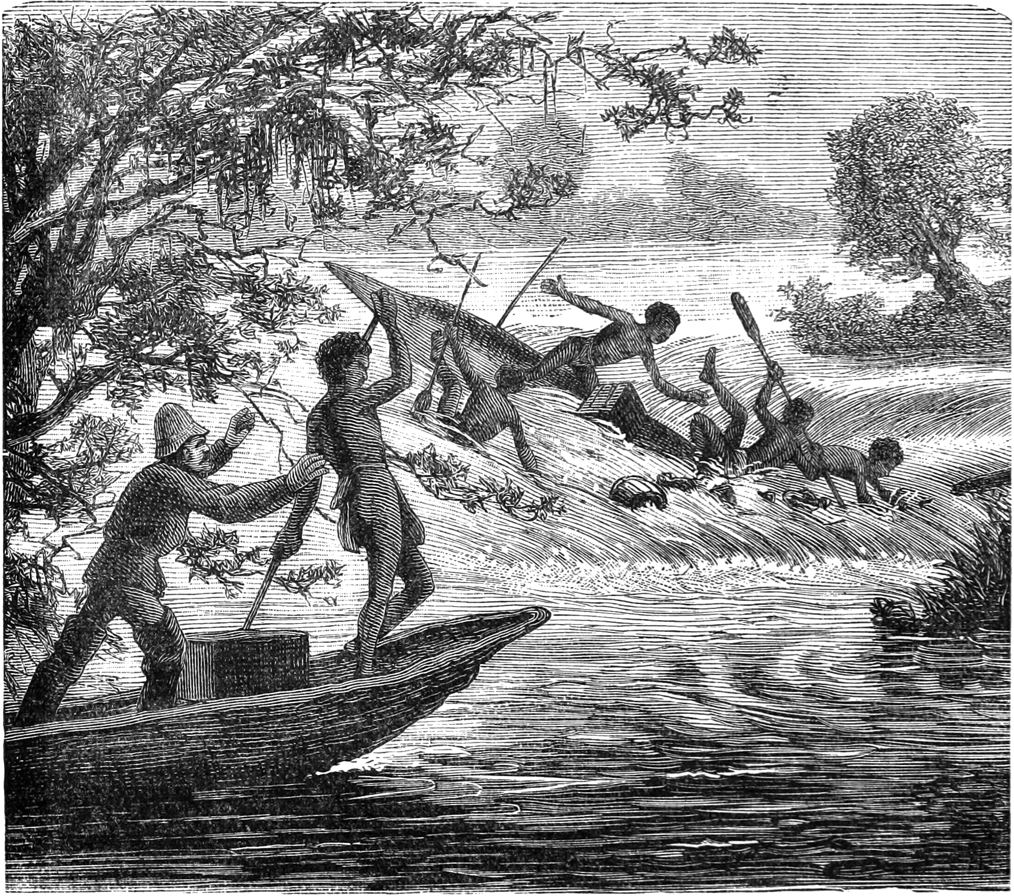 Boat wrecked, from the book Seven Years in South Africa, volume 2, page 276